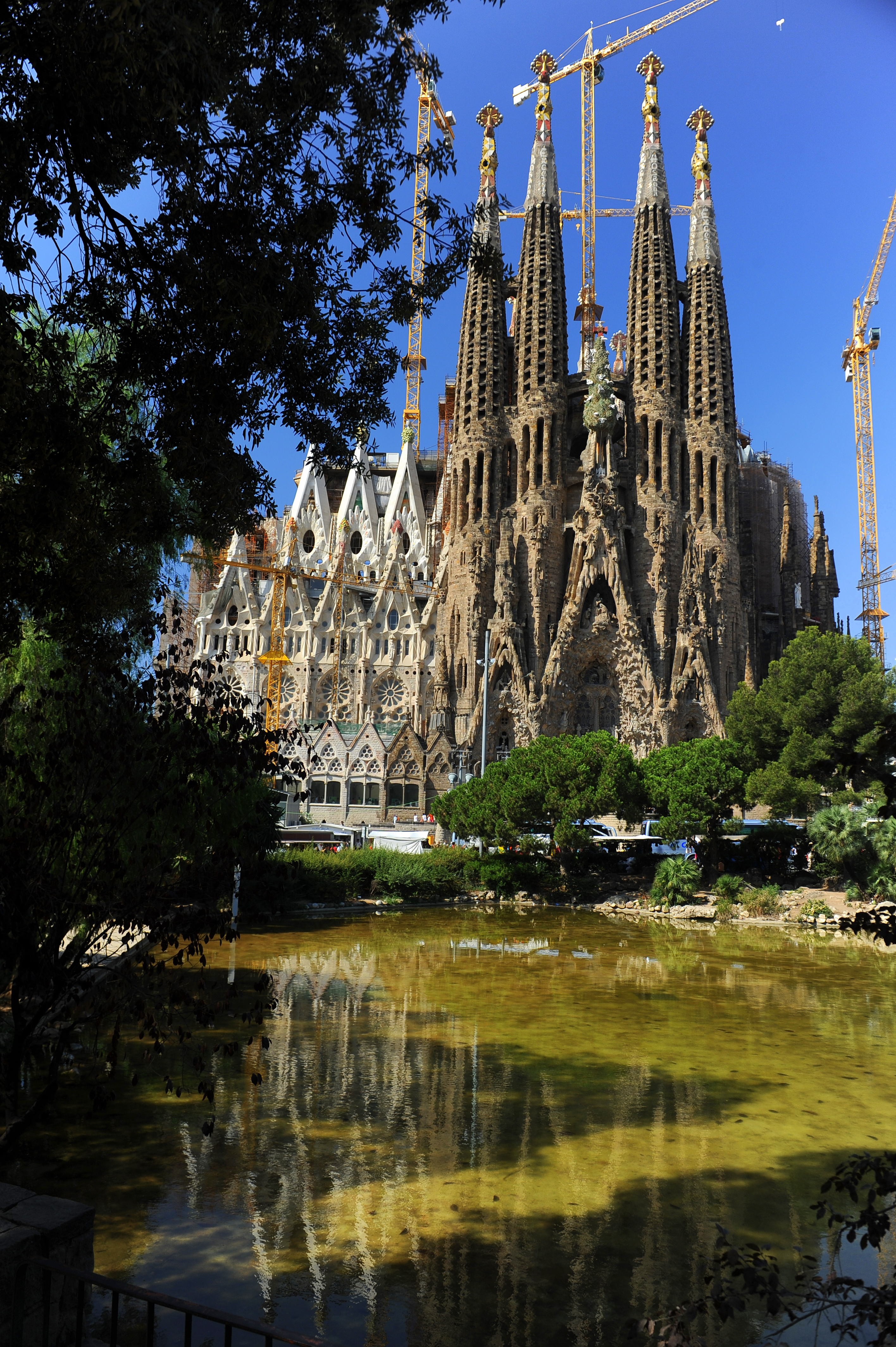 Sagrada Família of Barcelona